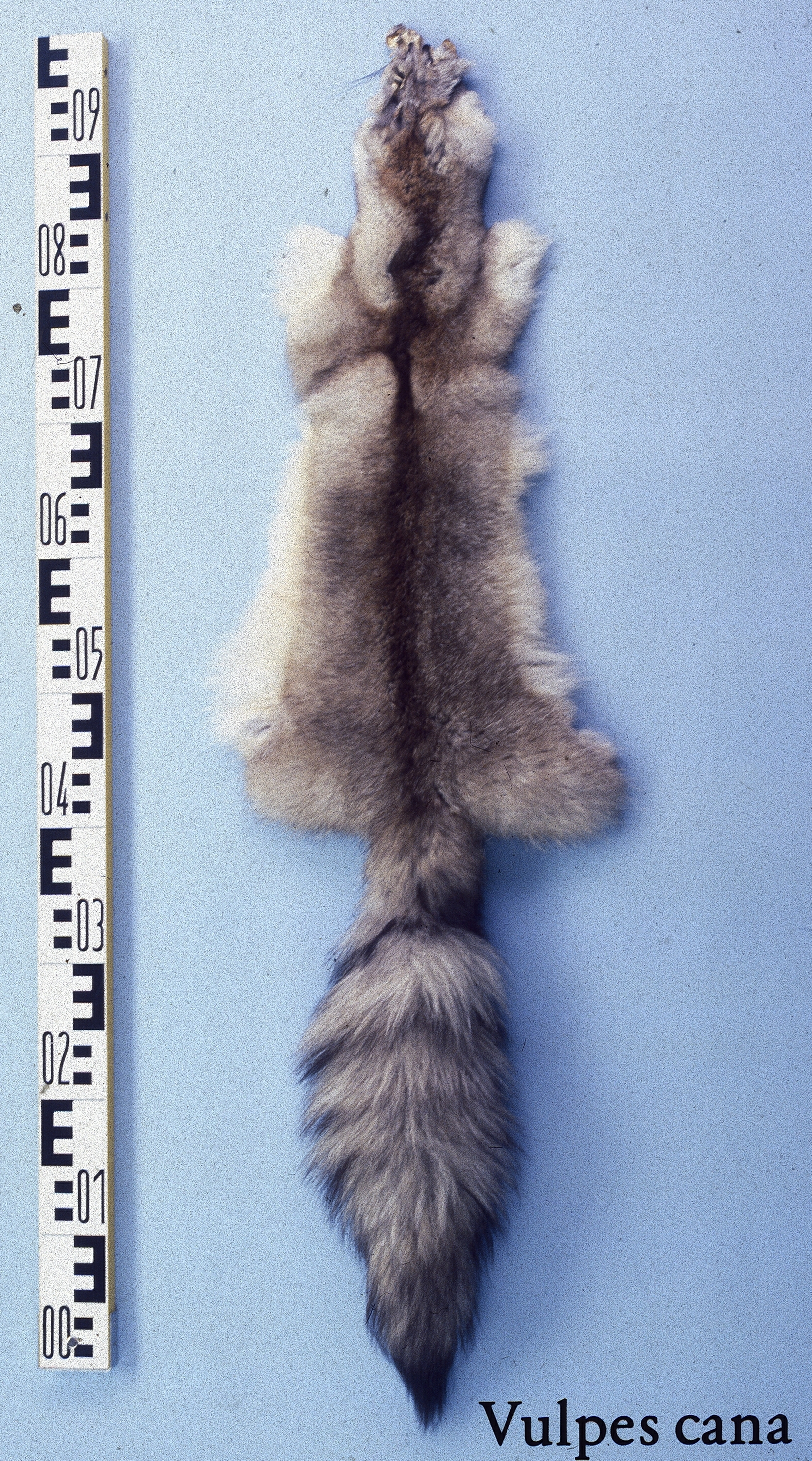 Blanford´s fox skin (Vulpes cana). Fur skin collection, Bundes-Pelzfachschule, Frankfurt/Main, Germany